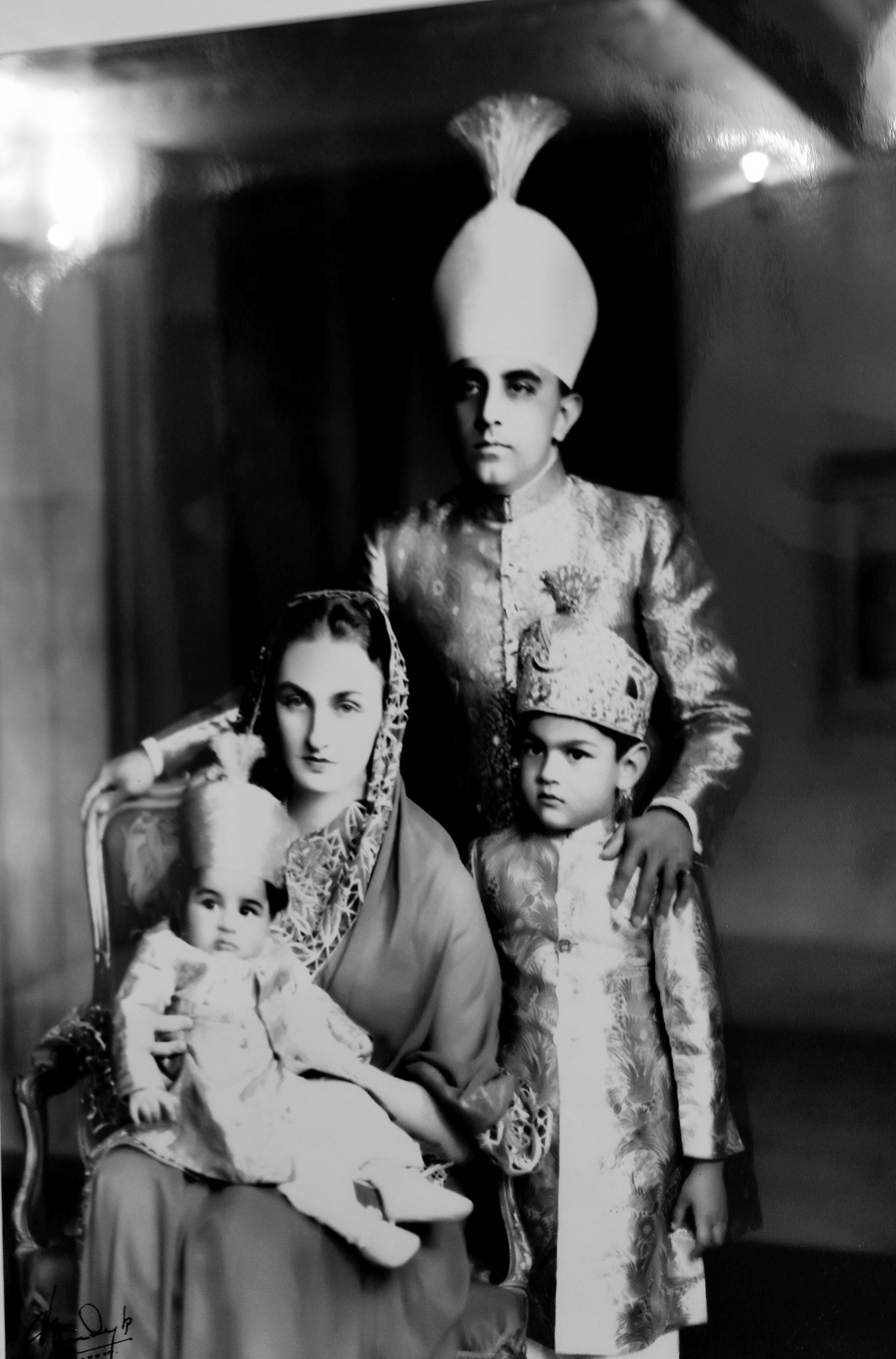 Azam Jah married a Turkish Princess, Durru Shehvar. Prince Mukkaram Jah (Standing R) is their son.